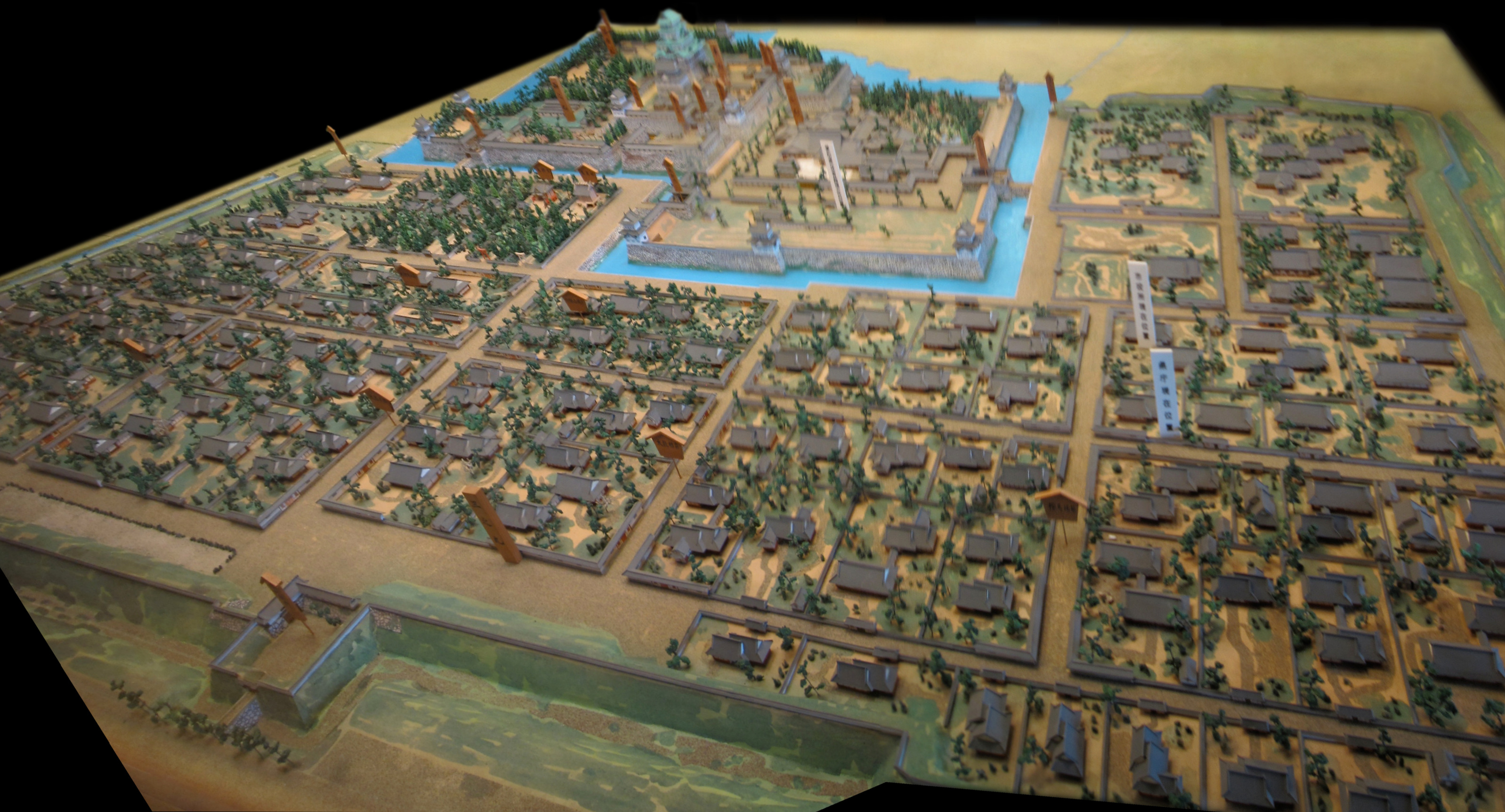 Nagoya Castle